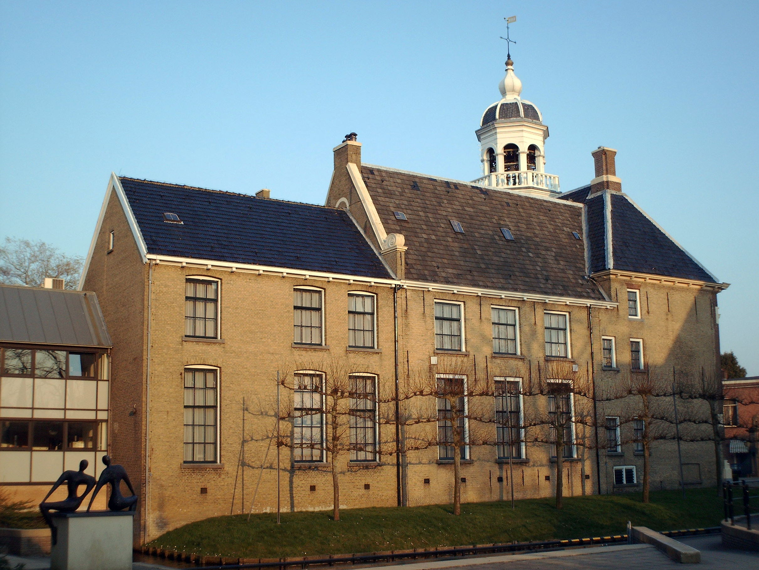 Crackstate in Heerenveen (part of town hall)